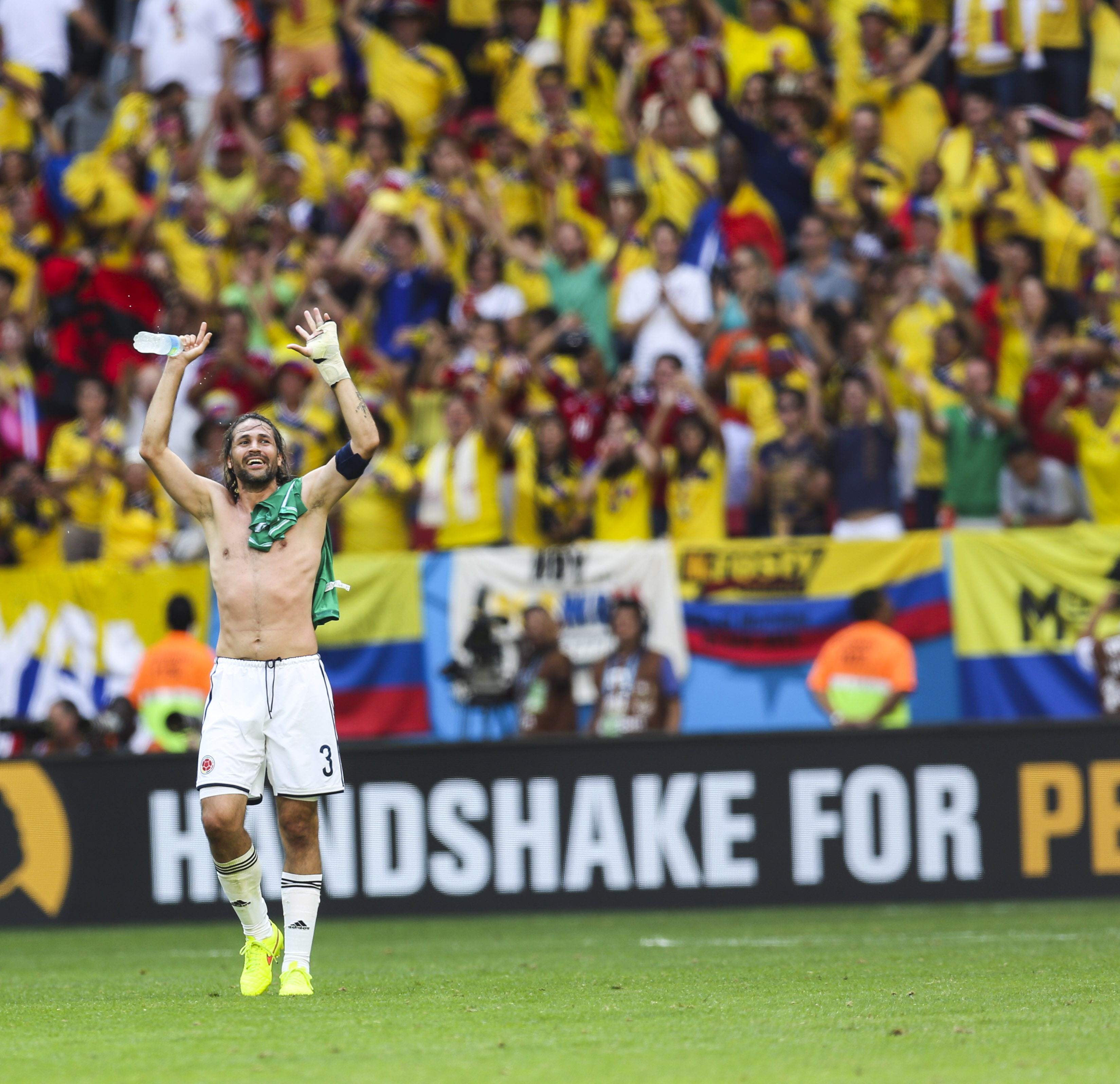 Colombia and Ivory Coast match at the FIFA World Cup 2014-06-19